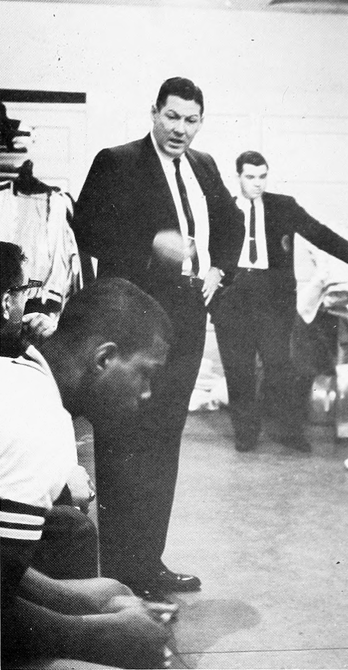 An scanned image of a page from the 1963 edition of the Loyolan, the yearbook of Loyola University Chicago